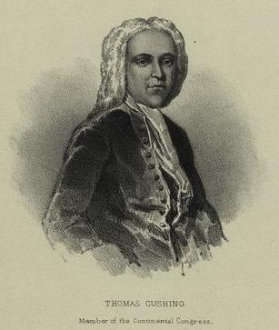 Massachusetts colonial speaker of the house Thomas Cushing; he was also lieutenant governor after independence, and briefly acting governor.